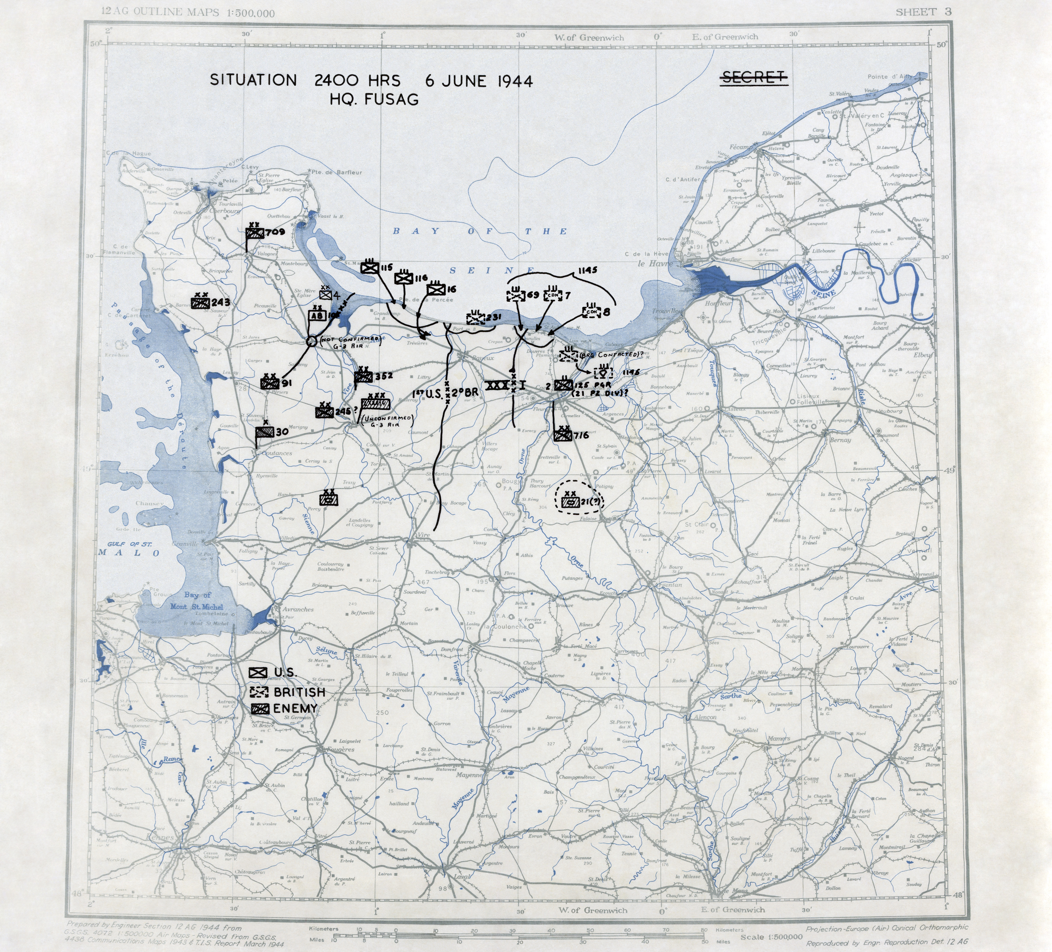 Official U.S. 12th Army position map at 2400 on D-Day (June 6, 1944).